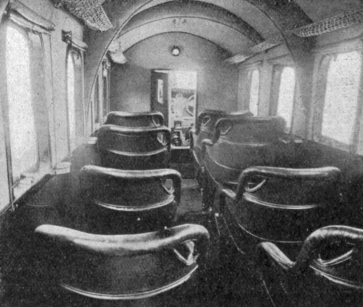 Junkers G.24 cabin photo from L'Aéronautique November,1926